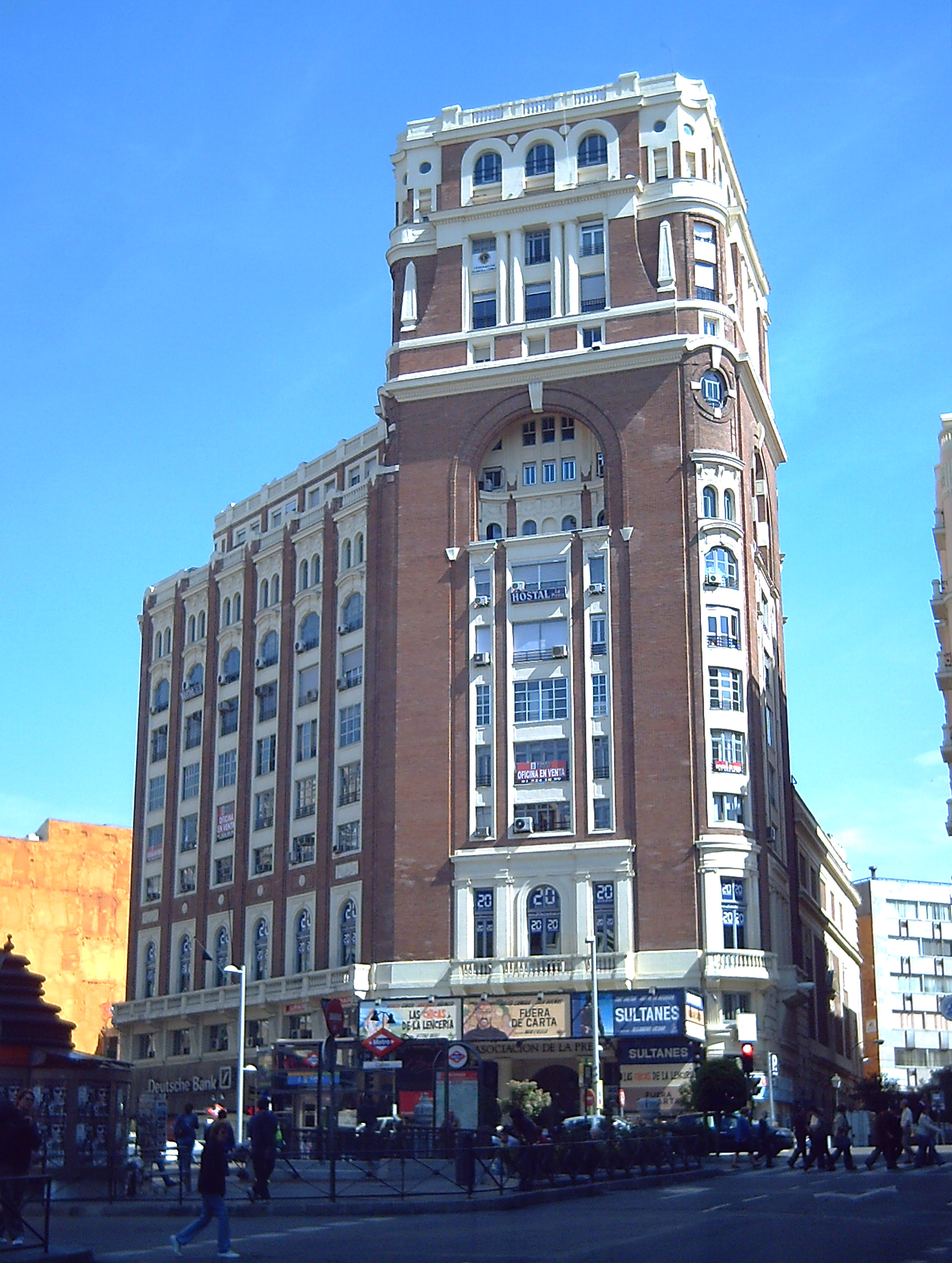 View of the Palacio de la Prensa (literally "Press Palace") in Madrid (Spain) from Plaza del Callao (square). Building was projected in 1924 by Pedro Muguruza Otaño and built from 1925 to 1929.